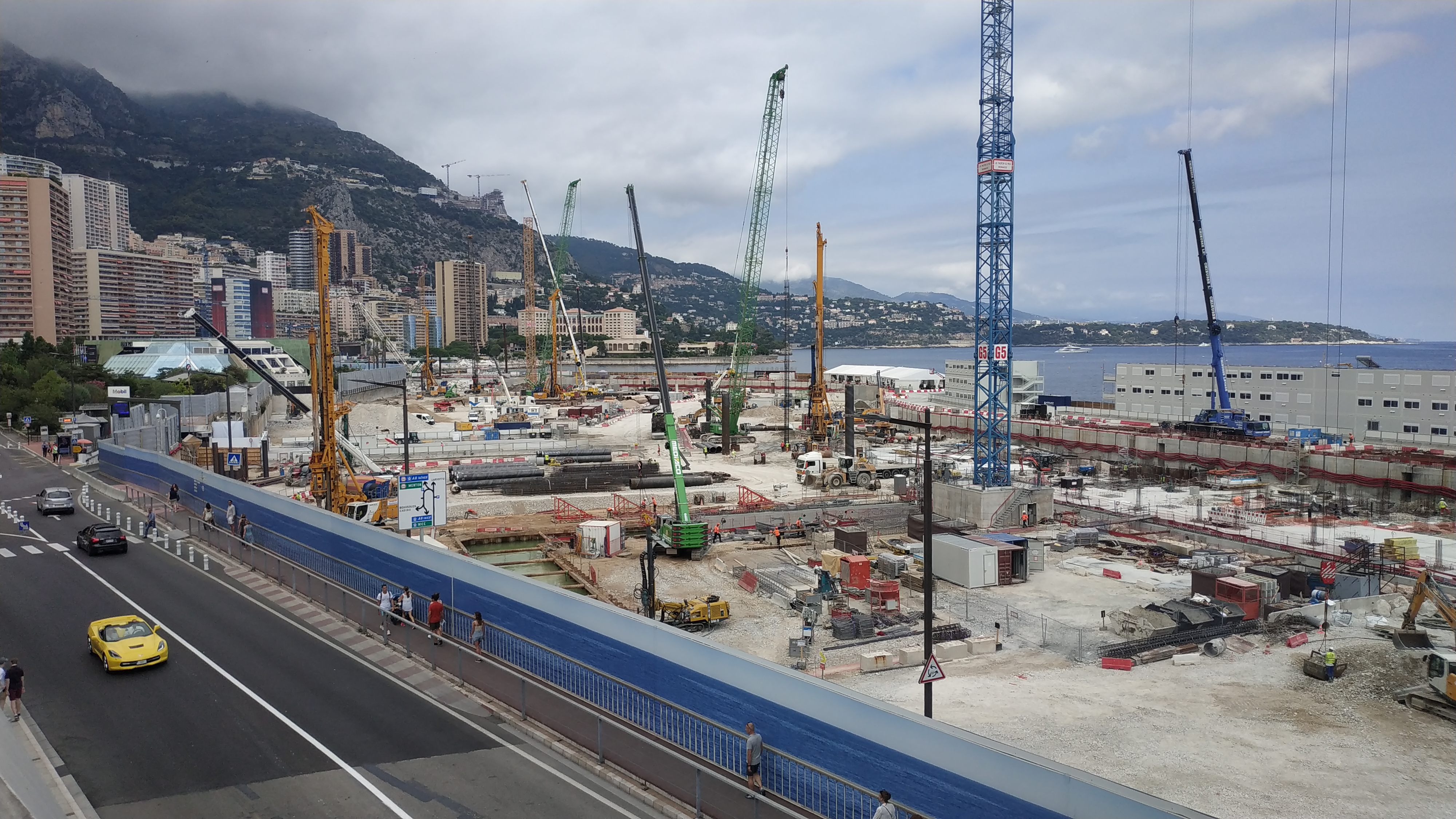 Construction site of Le Portier, Monaco in July 2020